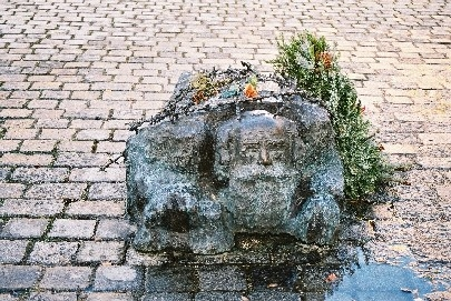 Memorial against War and Fascism (1981-1991) by Austrian sculptor Alfred Hrdlicka (born February 27, en:1928) at Albertinaplatz in Vienna's city centre. Statue of kneeling Jewish Viennese, who were forced by the Nazis to scrub the pavement with brushes. This action was perpertrated by the Nazis in order to humiliate and terrorise the Jewish citizens of Vienna, these events occurred right after the Anschluss in 1938. The statue is located at the base the monument at the Albertinaplatz. Photo by KF